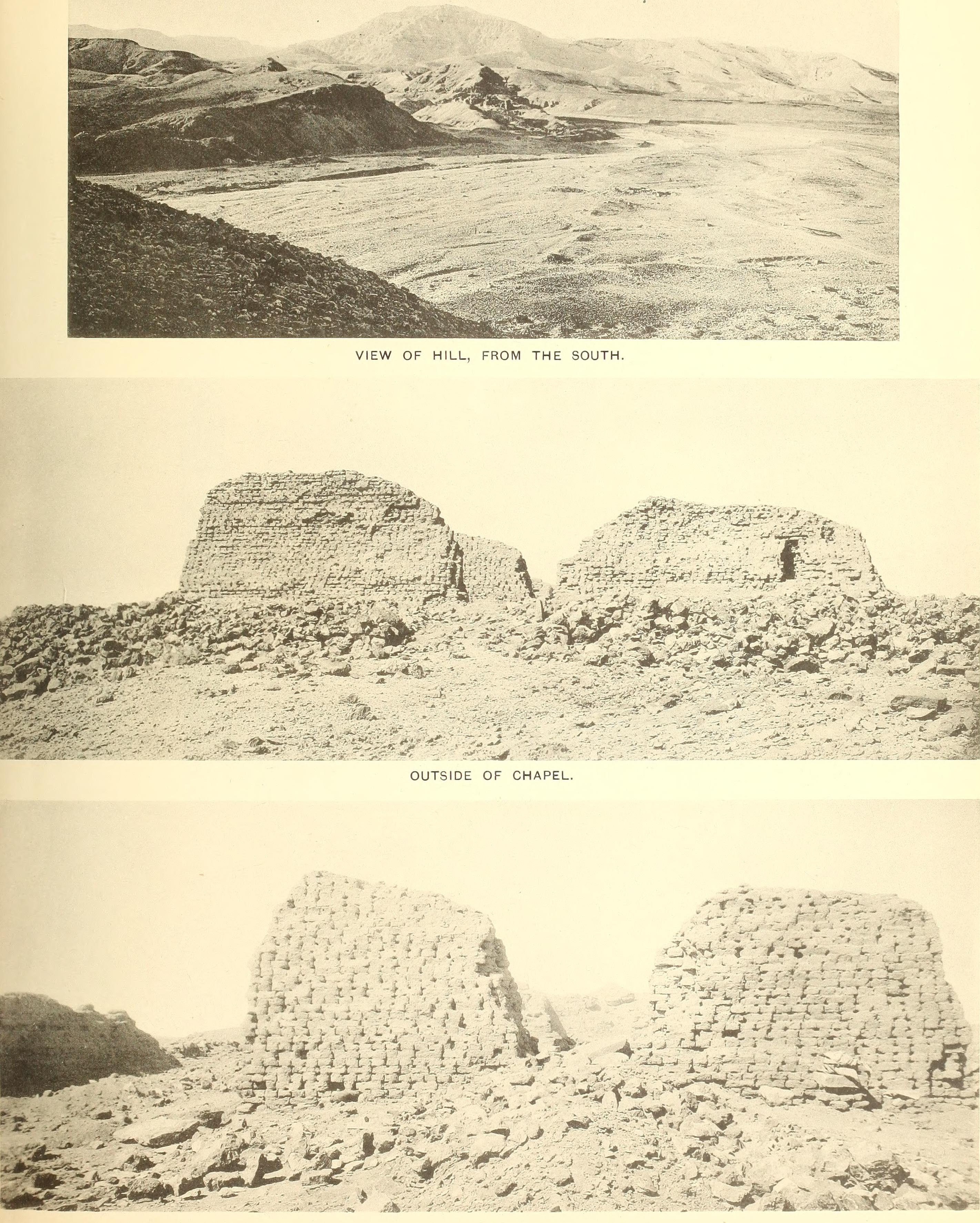 Title: (Publications Year: 1895 (1890s) Authors: British School of Egyptian Archaeology Petrie, W. M. Flinders (William Matthew Flinders), Sir, 1853-1942. Naqada and Ballas Petrie, W. M. Flinders (William Matthew Flinders), Sir, 1853-1942. Egyptian architecture Petrie, W. M. Flinders (William Matthew Flinders), Sir, 1853-1942. Making of Egypt Egyptian Research Account. Publications British School of Egyptian Archaeology. Memoir Subjects: Publisher: London Text Appearing Before Image: QURNEH. SED-HEB CHAPEL OF SANKH-KARA. XI DYN. V. Text Appearing After Image: SHRINE OF CHAPEL. 1 : 180 QURNEH. SED-HEB CHAPEL OF SANKH-KARA, XI DYNASTY. VI.